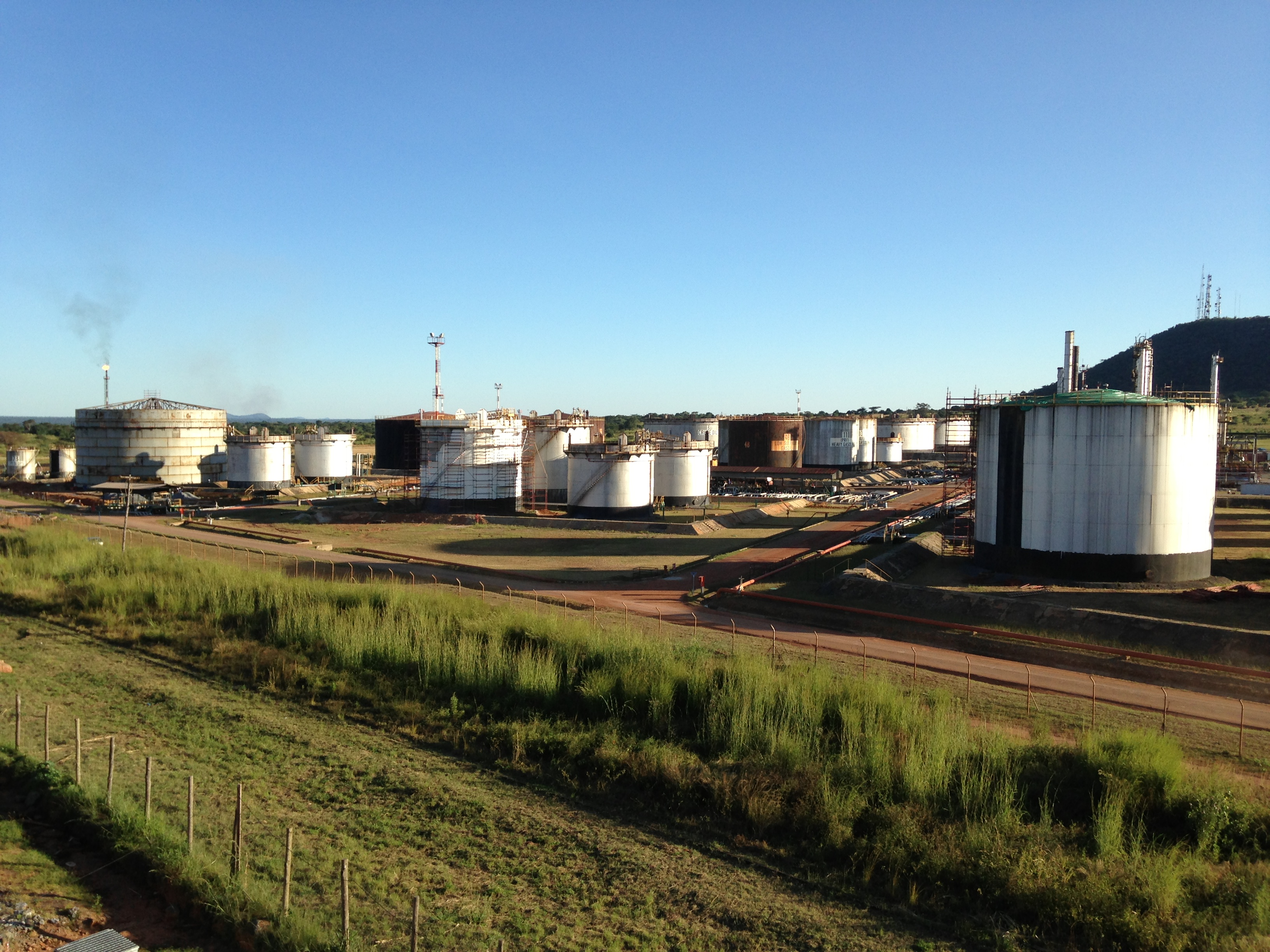 Overview picture of a typical independent oil terminal